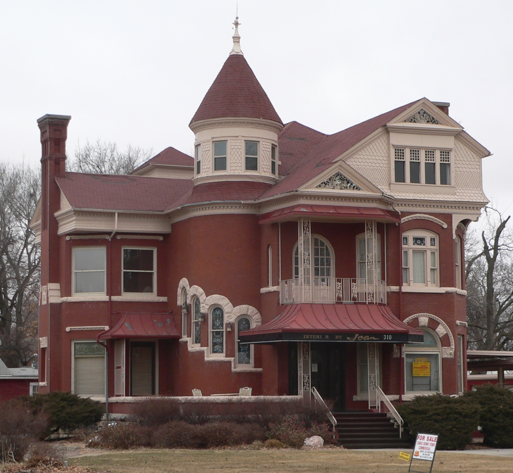 J. D. McDonald house, located at 310 E. Military Avenue in Fremont, Nebraska; seen from the southwest.